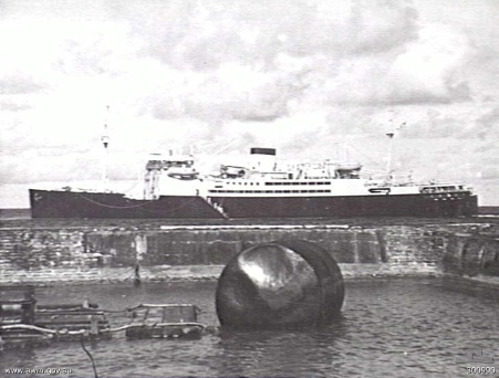 HMAS Manoora off Nauru in January 1941 shortly after two German raiders had attacked the island.